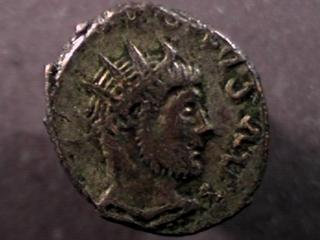 obverse of the usurper's Bonosus antoninianus